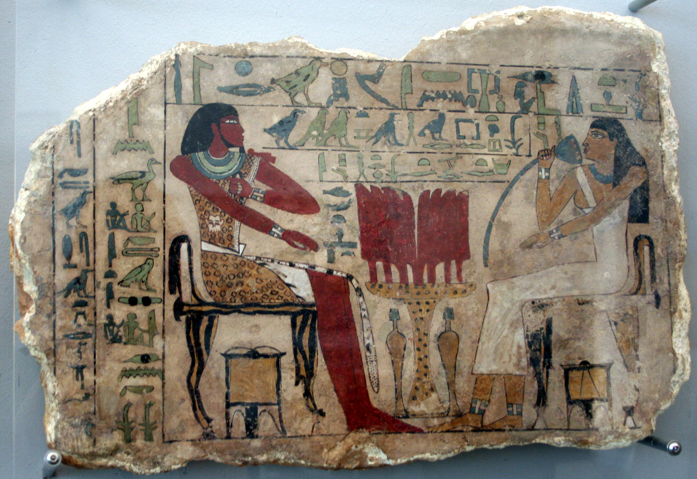 Tomb stela of Nemti-ui. Egyptian first intermediate period. Akhmim (?) H 48.5 cm. Limestone, plaster painted. IN 1875. Roemer und Pelizaeus Museum. "An offering which the king gives (to) Osiris, a funerary offering for the venerable with the Great God, for the Lord of the Private Chamber, the Overseer of the Fields of the Great House, Nemti-ui..." Example of "free-form" or "free-style" hieroglyphs; (Picasso-like). The iconography may also be in "free-style". Examples of this "free-form", Picasso-like expression abound in Category:Cylinder seals, (not represented abundantly in WikiCommons photos).